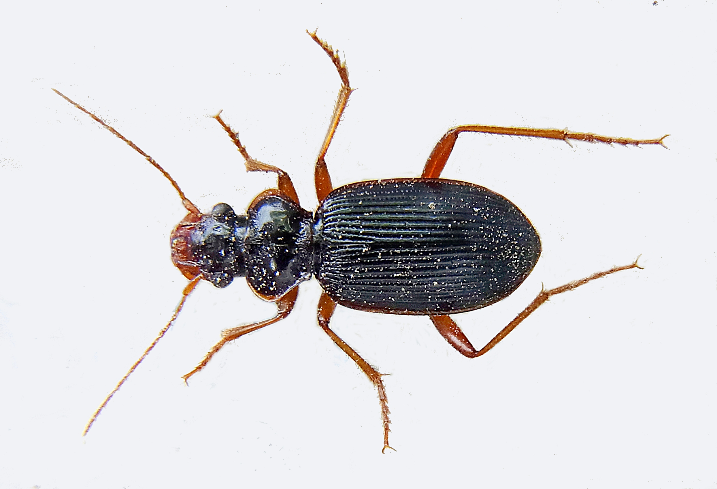 Leistus rufomarginatus from Hungary, near Tatabánya under dead and lying pinetree.